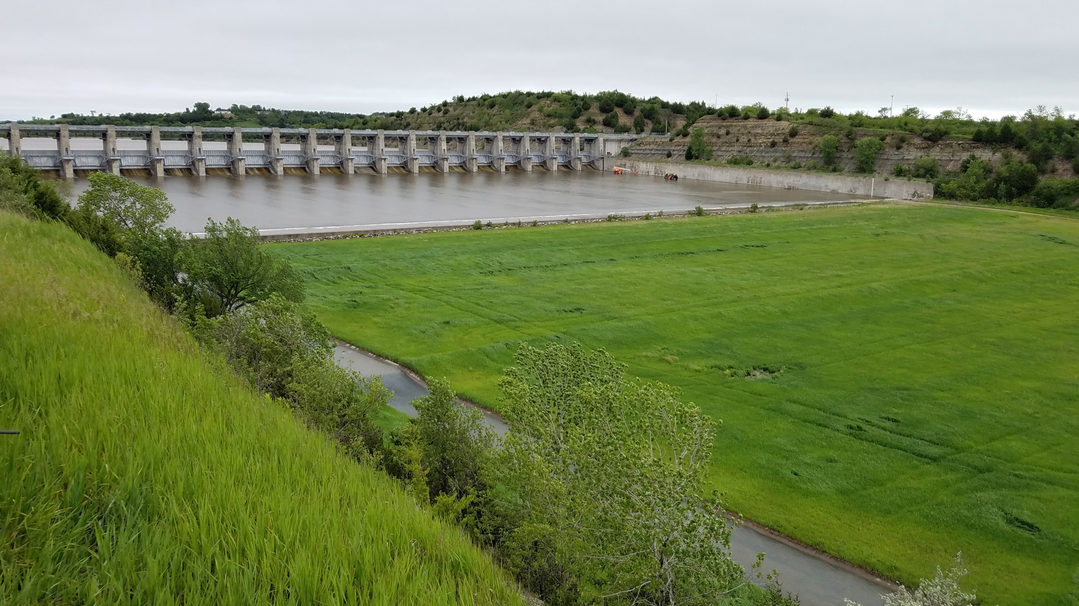 Tuttle Creek Lake spillway gates and chute 20190521.